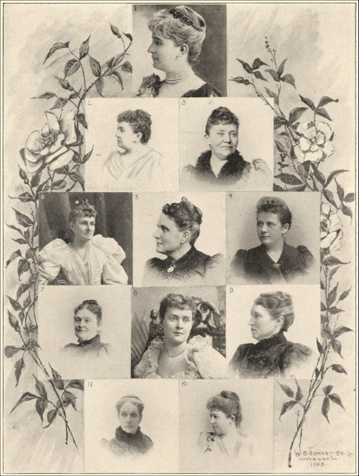 Officers of Board of Lady Managers, portraits of 10 women. Key: 1. President Mrs. Potter Palmer 2. Mrs. Ralph Trautman 3. Mrs. Edwin C. Burleigh 4. Mrs. Charles Price 5. Mrs. Katherline L. Minor 6. Mrs. Beriah Wilkins 7. Mrs. Flora Beall Ginty 8.Mrs. Russell B. Harrison 9. Mrs. V.C. Merideth. 10.Susan Gale Cooke. 1896. Digitial Identifier: GN90799d_CON_007w World's Columbian Exposition Collection at The Field Museum